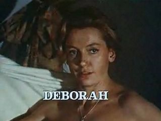 Screenshot of Deborah Kerr from the trailer for the film The Sundowners